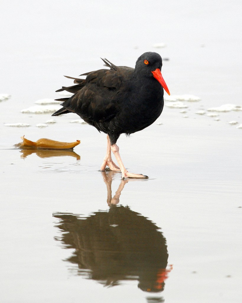 Black Oystercatcher near Morro Rock, Morro Bay, CA. Photo by Mike Baird, .